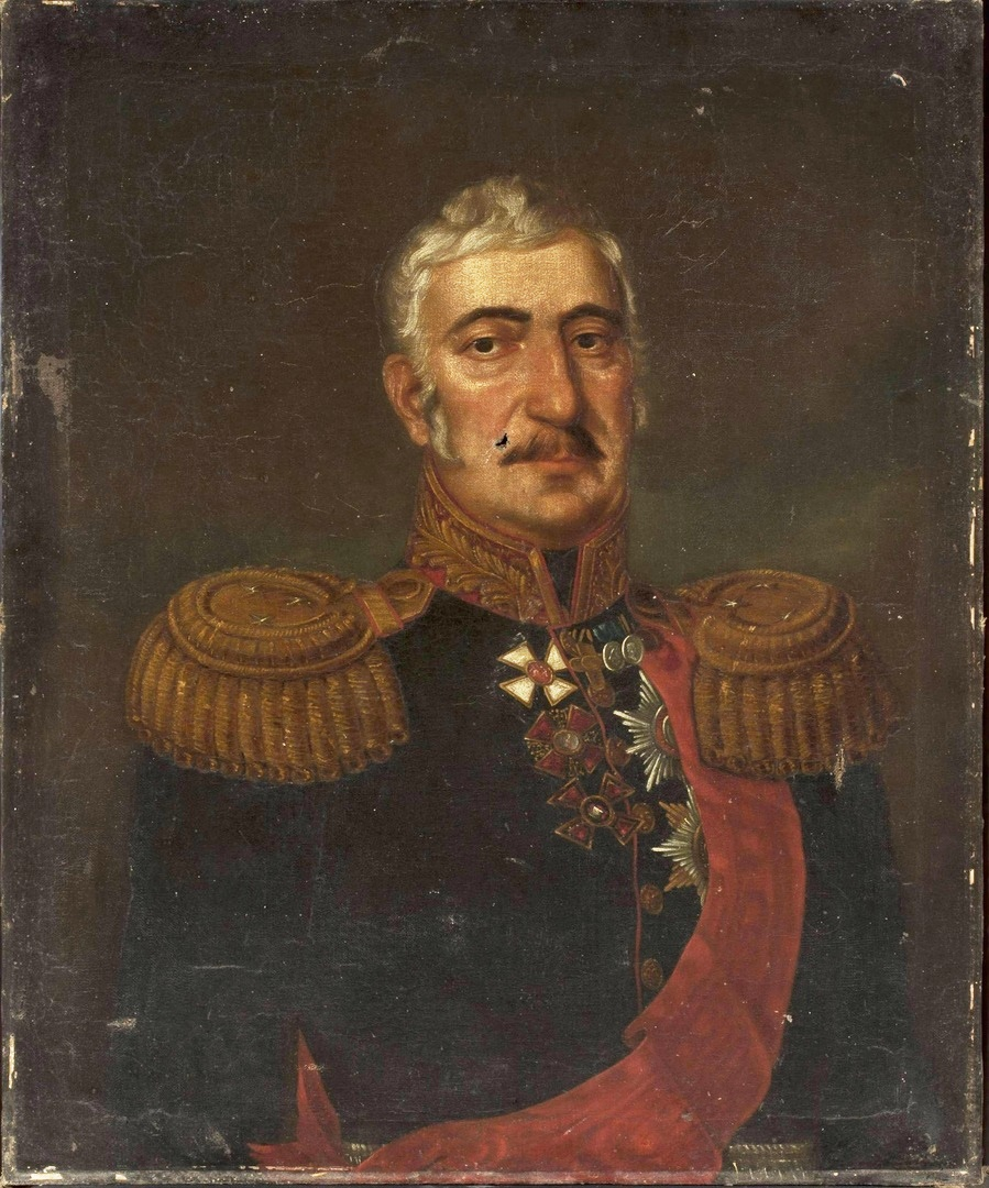 Savoini Yeremey Yakovlevich (1832)